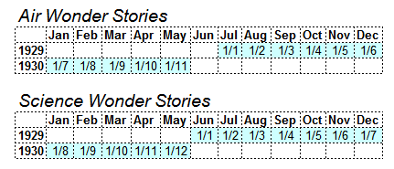 Grid showing volume number/issue number of Air Wonder Stories and Science Wonder Stories. The color coding indicates the editor; there was only one editor, David Lasser, for these magazines, so only one color is shown.